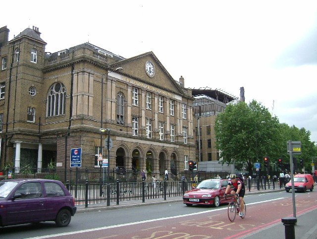 "The London" The Royal London Hospital Whitechapel. Home to Joseph Merrick (the Elephant Man) and the lifesaver for many caught up in the 7th of July 2005 bombings. The Air Ambulance helipad can clearly be seen on top of the building to the left